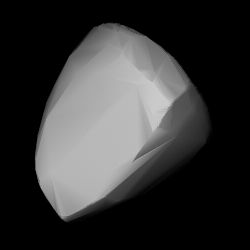 3D convex shape model of 3451 Mentor, computed using light curve inversion techniques. J. Hanuš, J. Ďurech, M. Brož, B. D. Warner (June 2011). "A study of asteroid pole-latitude distribution based on an extended set of shape models derived by the lightcurve inversion method". Astronomy and Astrophysics 530: A134. ISSN 0004-6361. arXiv